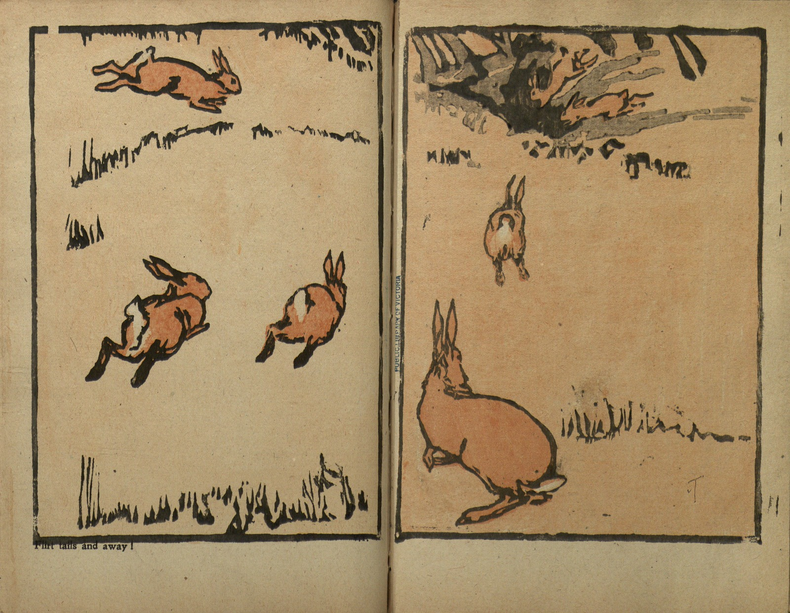 A Japanese woodblock coloured illustration of rabbits from the artists' book Night Fall in the Ti-Tree